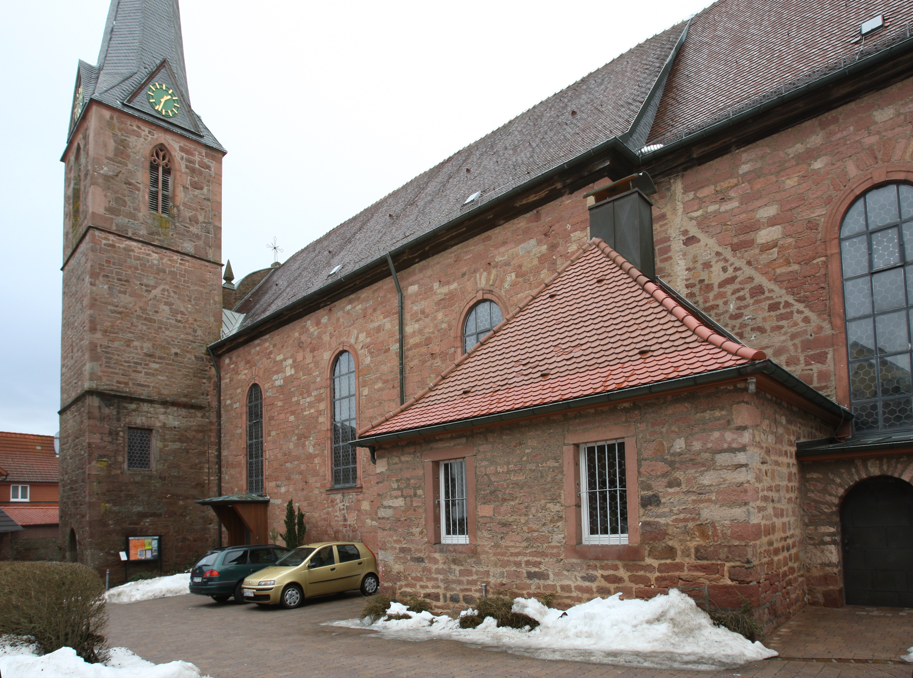 Church in Mudau